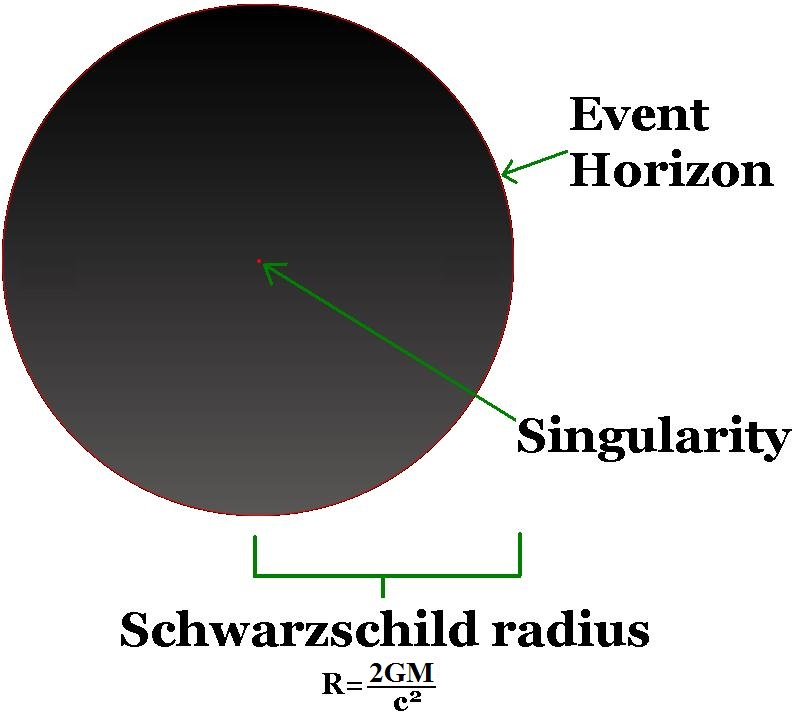 A simple illustration of a non-spinning black hole